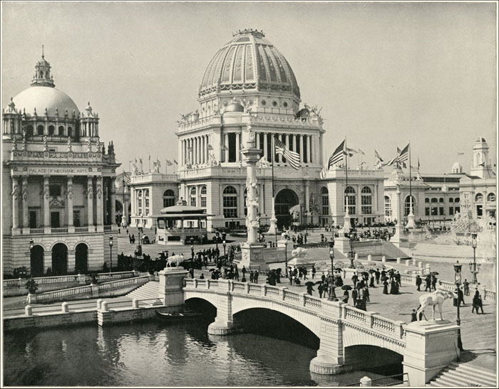 Administration Building, from Agricultural Building. Includes Palace of Mechanic Arts. Large photographic print from The White City (As It Was), photographs by William Henry Jackson. World's Columbian Exposition 1893. Digitial Identifier: GN90799d_JWH_069w World's Columbian Exposition Collection at The Field Museum